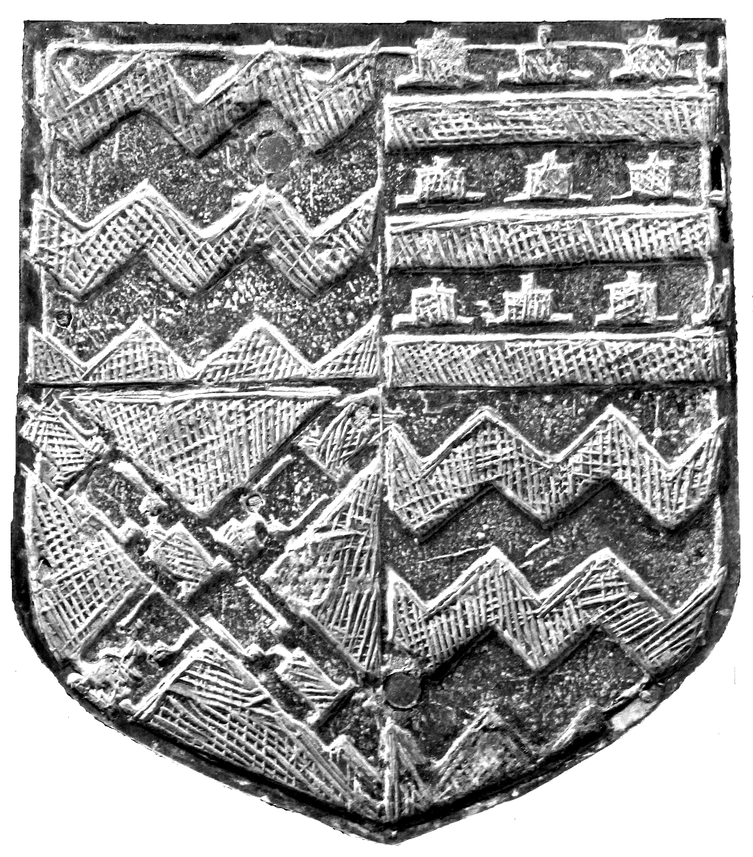 Arms of Sir John Bassett (1462-1529) of Umberleigh, Devon, photograph of one of the monumental brasses on his chest tomb in Atherington Church, Devon. Quarterly 1st & 4th: Barry wavy of six or and gules (Basset); 2nd: Barry of six vair and gules (Beaumont of Shirwell & Umberleigh) 3rd: Gules, a saltire vair (Willington of Umberleigh)